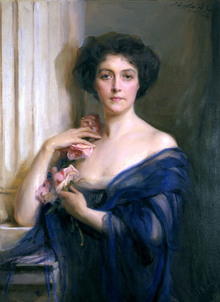 Portrait of Countess Dénes Széchényi, (born as Émilie de Riquet, comtesse de Caraman-Chimay)